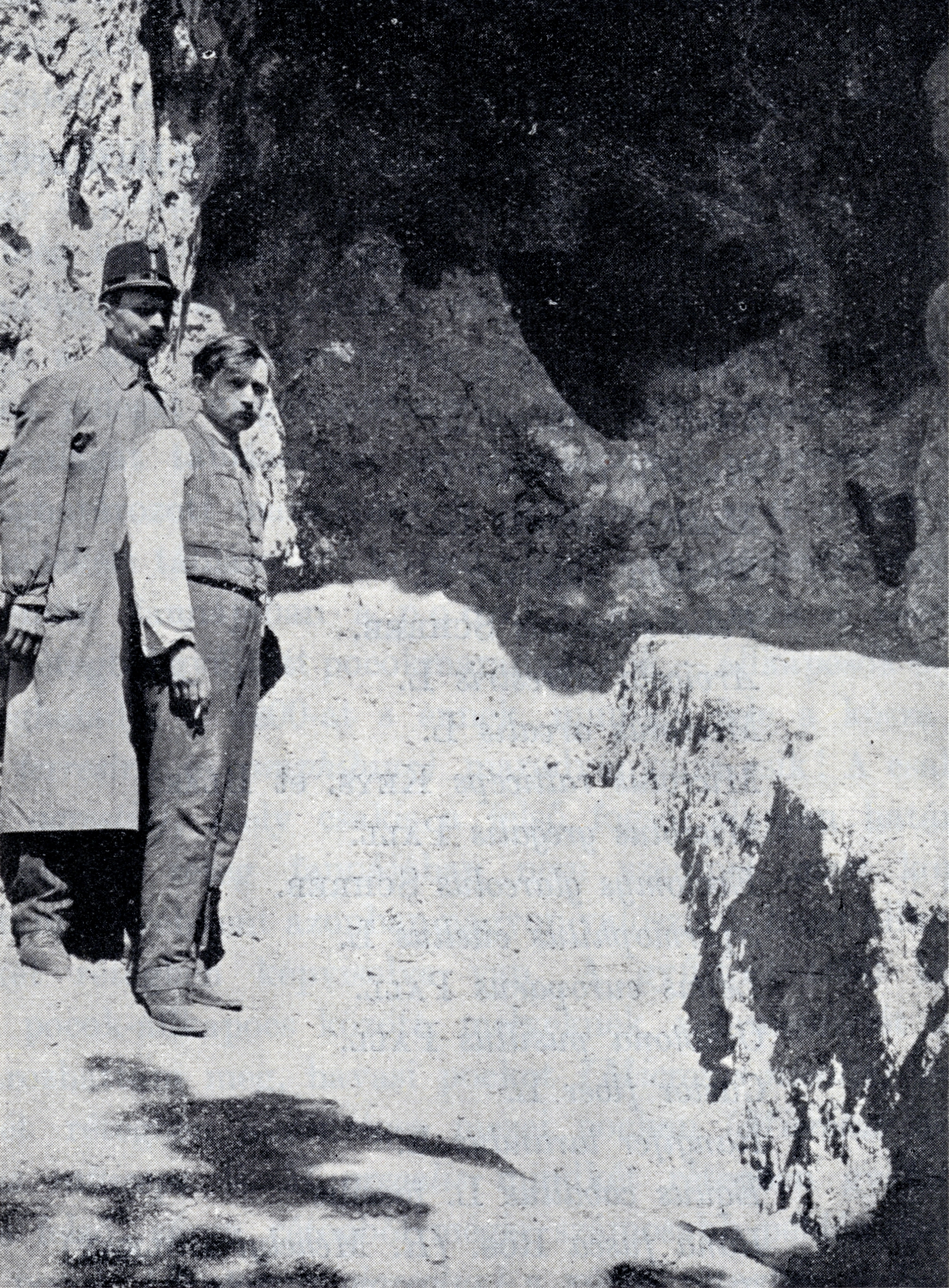 Remete-hegyi Niche.